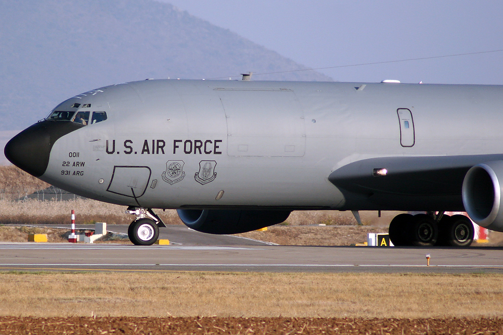 KC-135 of the 22d Air Refueling Wing and reserve 931st Air Refueling Group at Moron de la Frontera AB, Spain